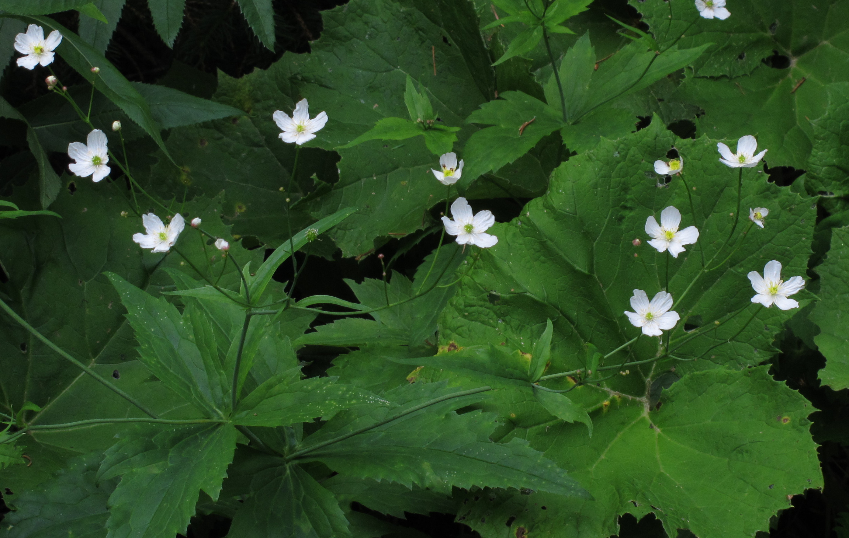 Large white buttercup (Ranunculus platanifolius) at the path between Altboeckstein and Sportgastein, Austria